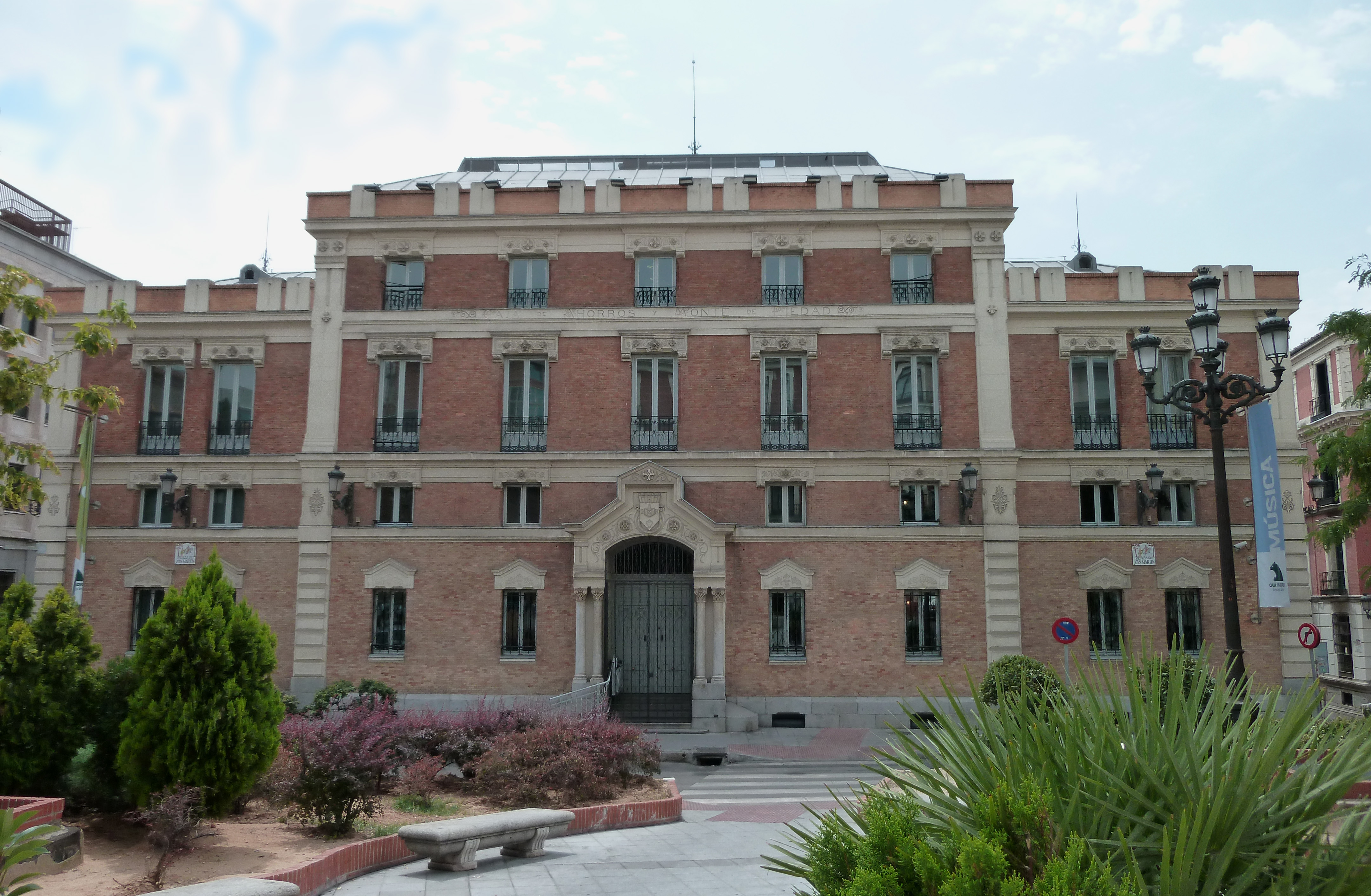 North-east façade of Casa de las Alhajas in Madrid (Spain).